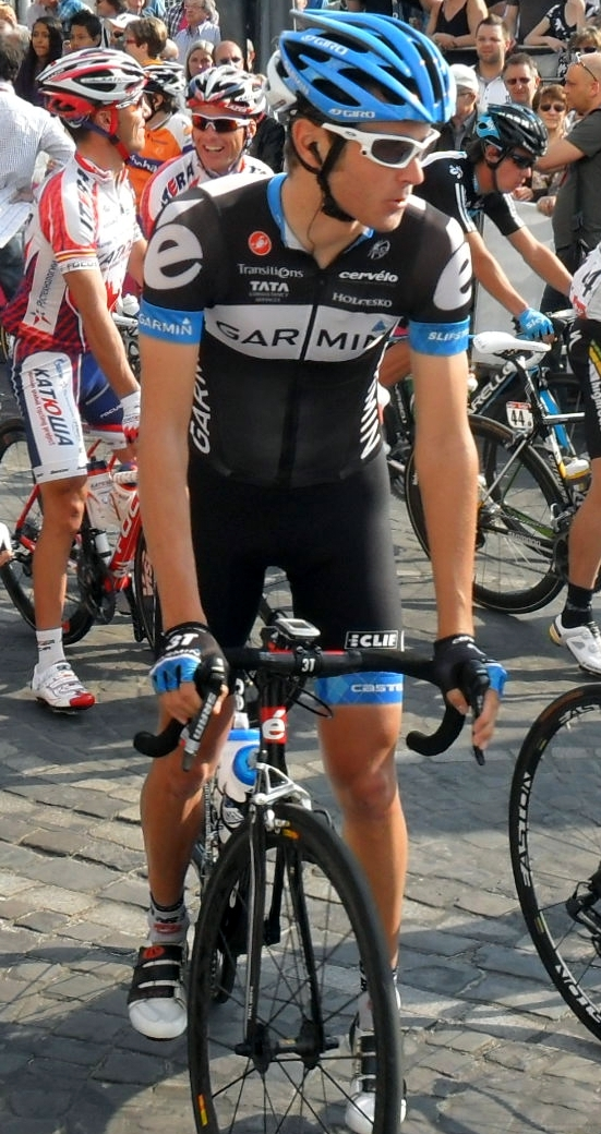 Ryder Hesjedal on Liège-Bastogne-Liège 2011 start line